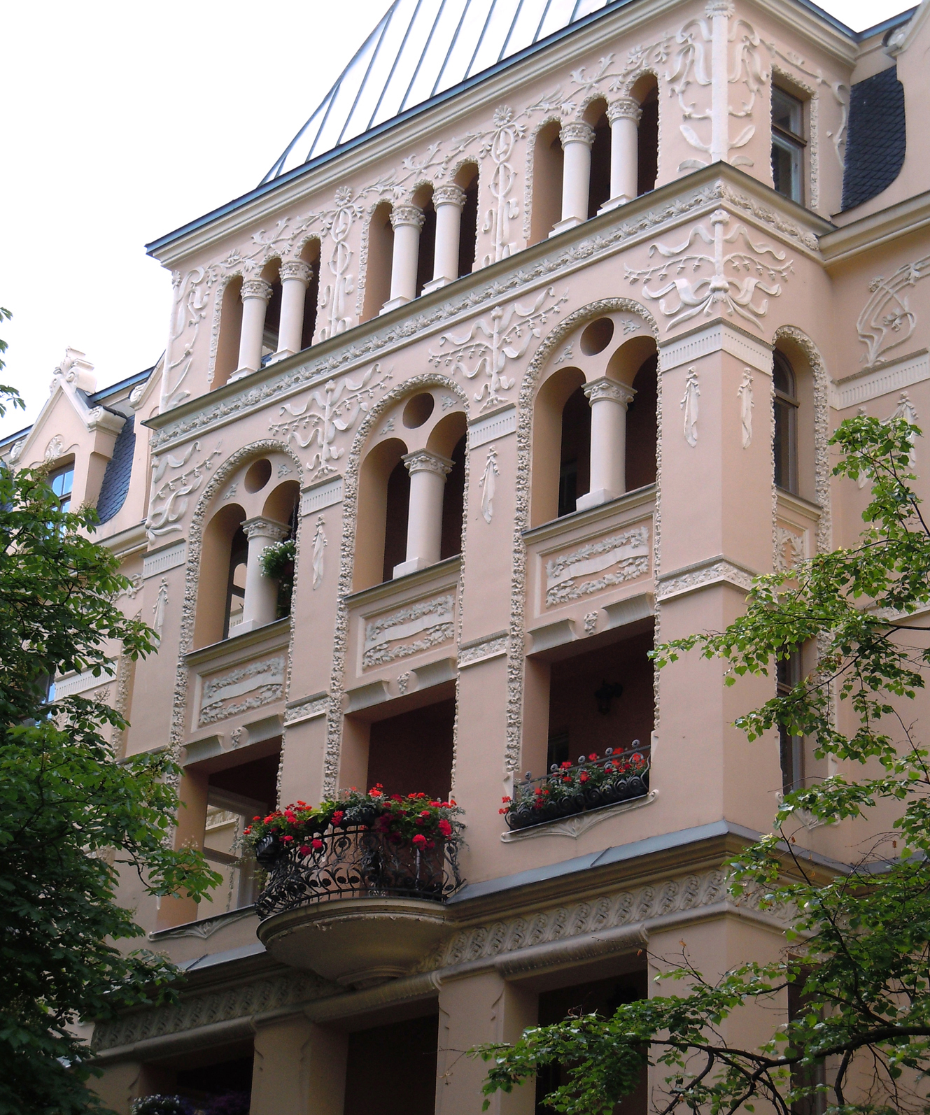 Antonijas street. Riga.